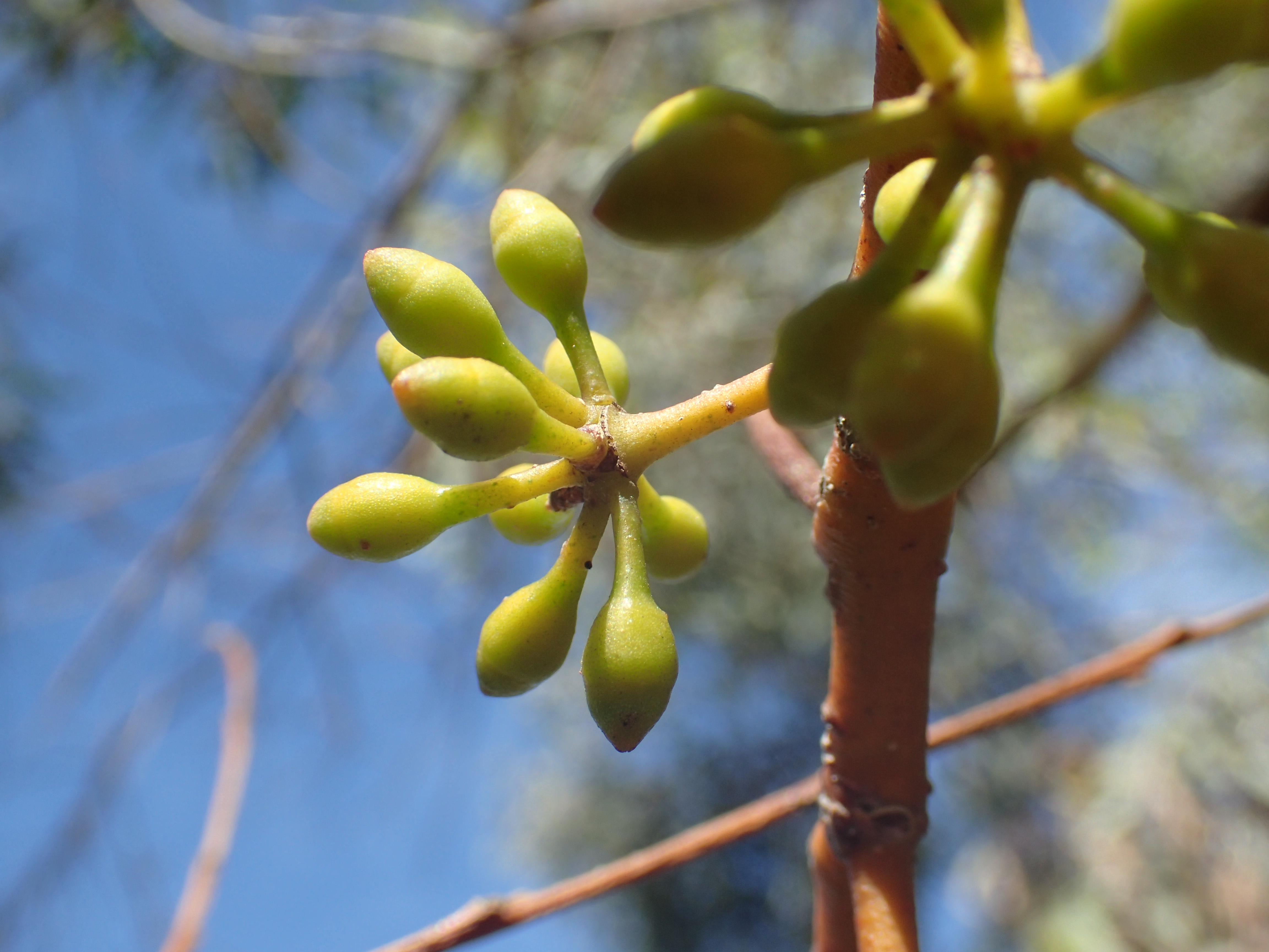 Flower buds of Eucalyptus suberea in Kings Park, Perth